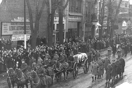 View of funeral procession of Arthur Currie showing horse drawn caisson as it moves along Park Avenue in Montreal, Quebec, Canada.